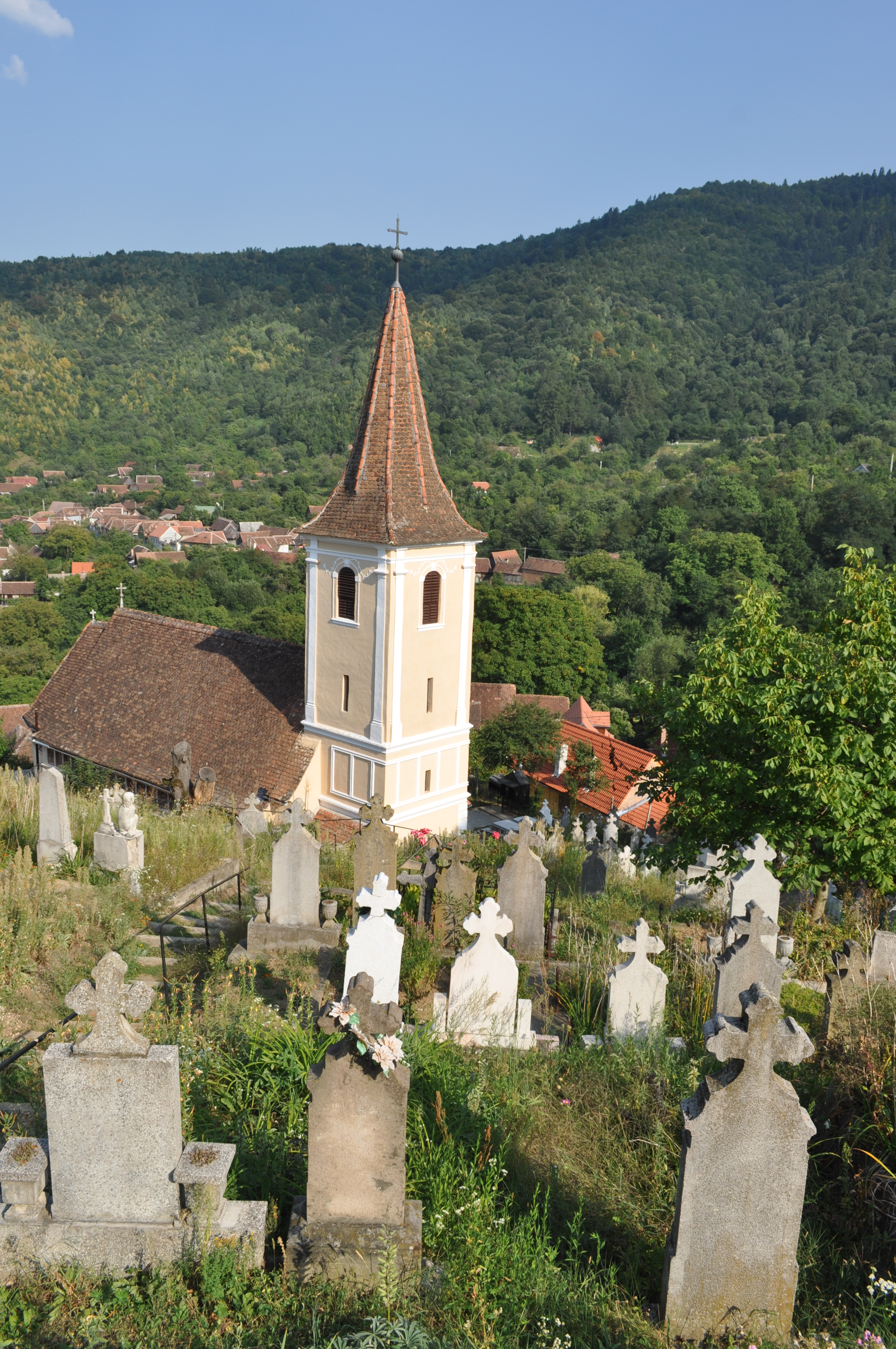 Saint Nicholas church in Fântânele (Cacova Sibiului)